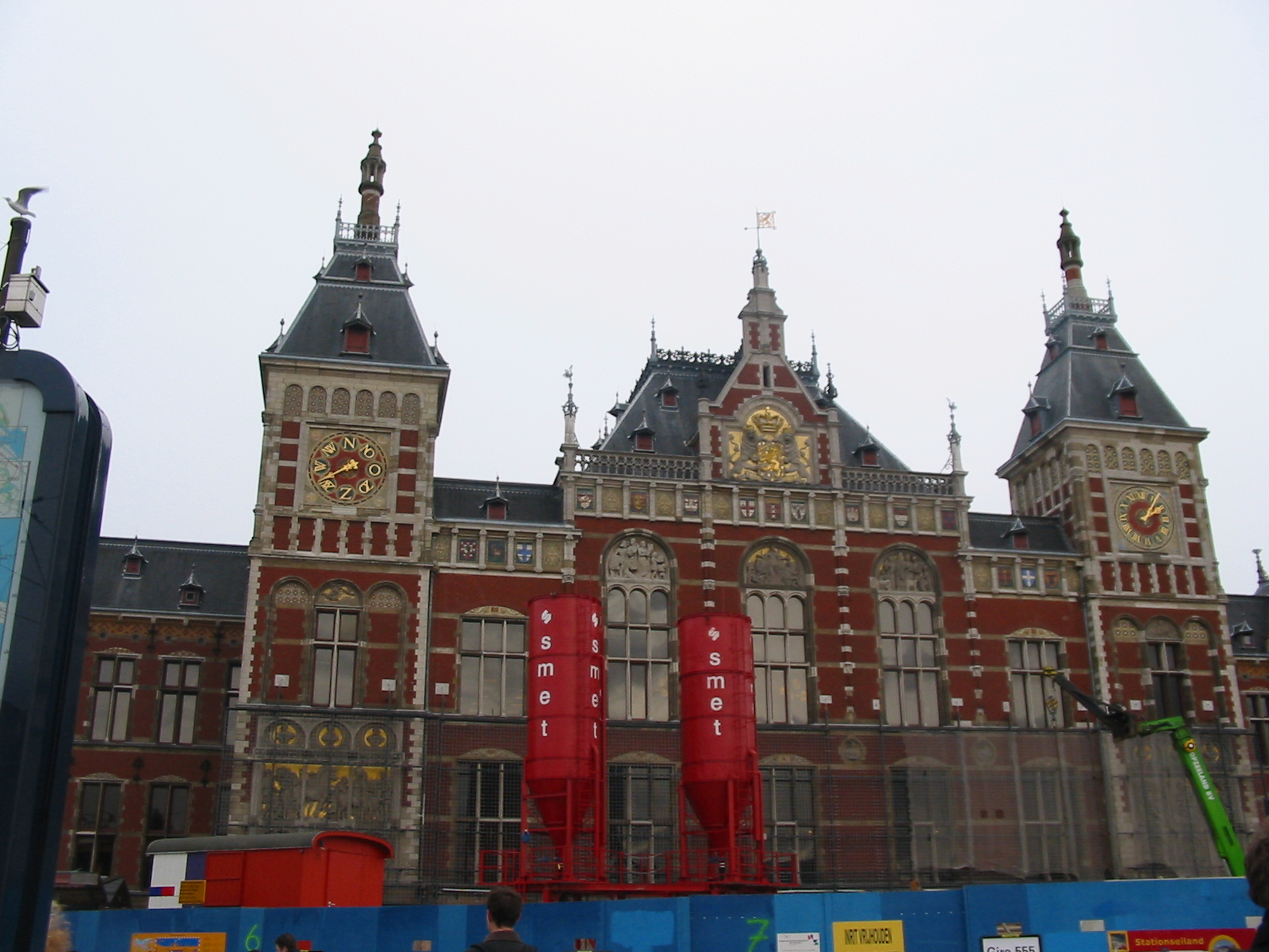 a completely beautiful train station, currently under renovationCentraal